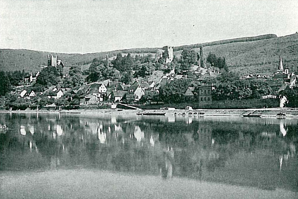 historical view of Neckarsteinach